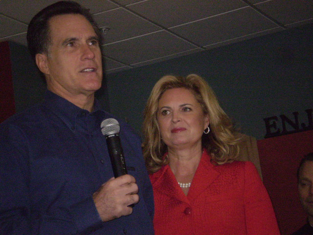 Republican Presidential Candidate Mitt Romney and his wife, Ann Romney